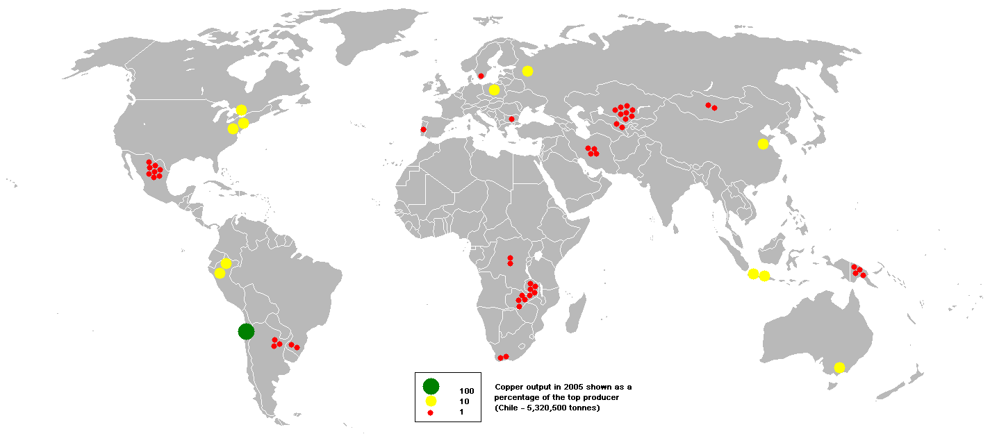 This bubble map shows the global distribution of mined output of copper in 2005 as a percentage of the top producer (Chile - 5,320,500 tonnes). This map is consistent with incomplete set of data too as long as the top producer is known. It resolves the accessibility issues faced by colour-coded maps that may not be properly rendered in old computer screens. Data was extracted on 2nd June 2007. Source - Based on Image:BlankMap-World.png